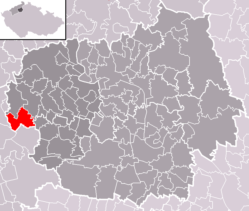 Location of Děčany municipality within Litoměřice District and administrative area of Lovosice as a Municipality with Extended Competence.